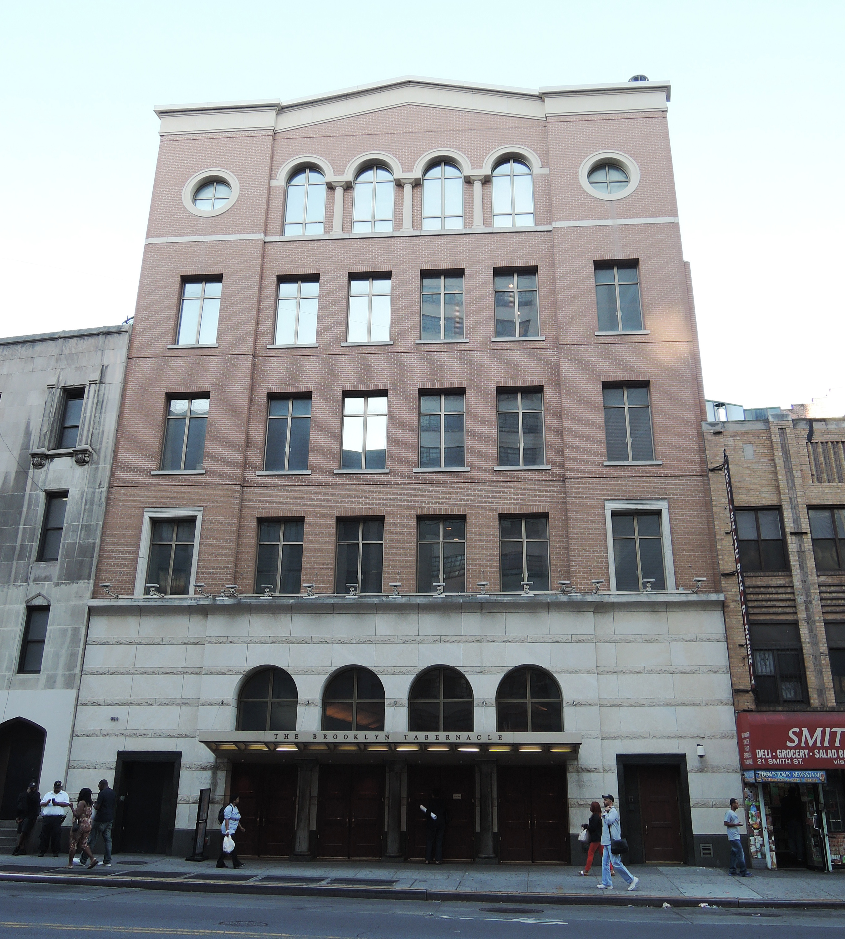 Looking east across Smith Street near dusk.